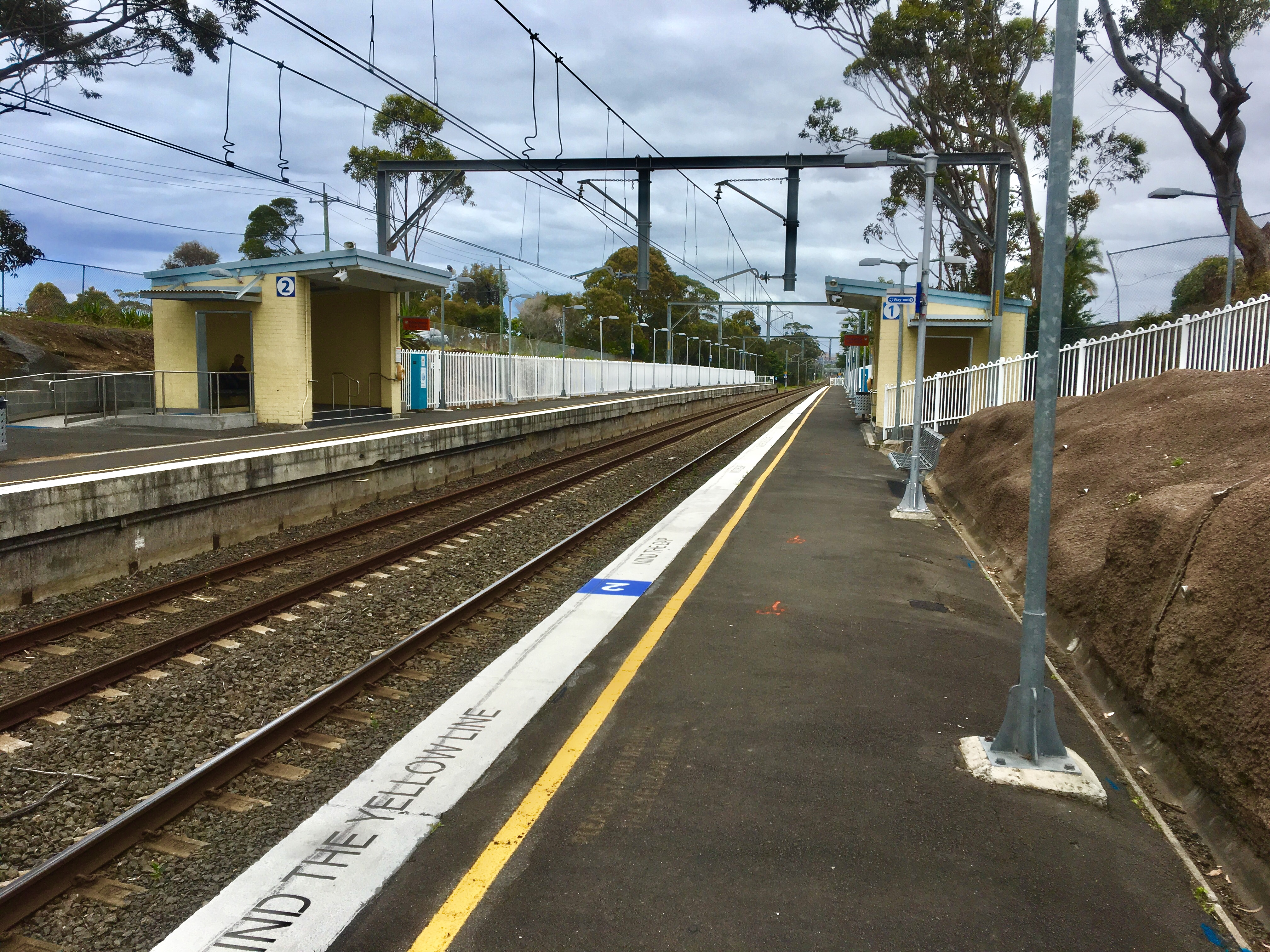 The track and platform at Towradgi railway station.